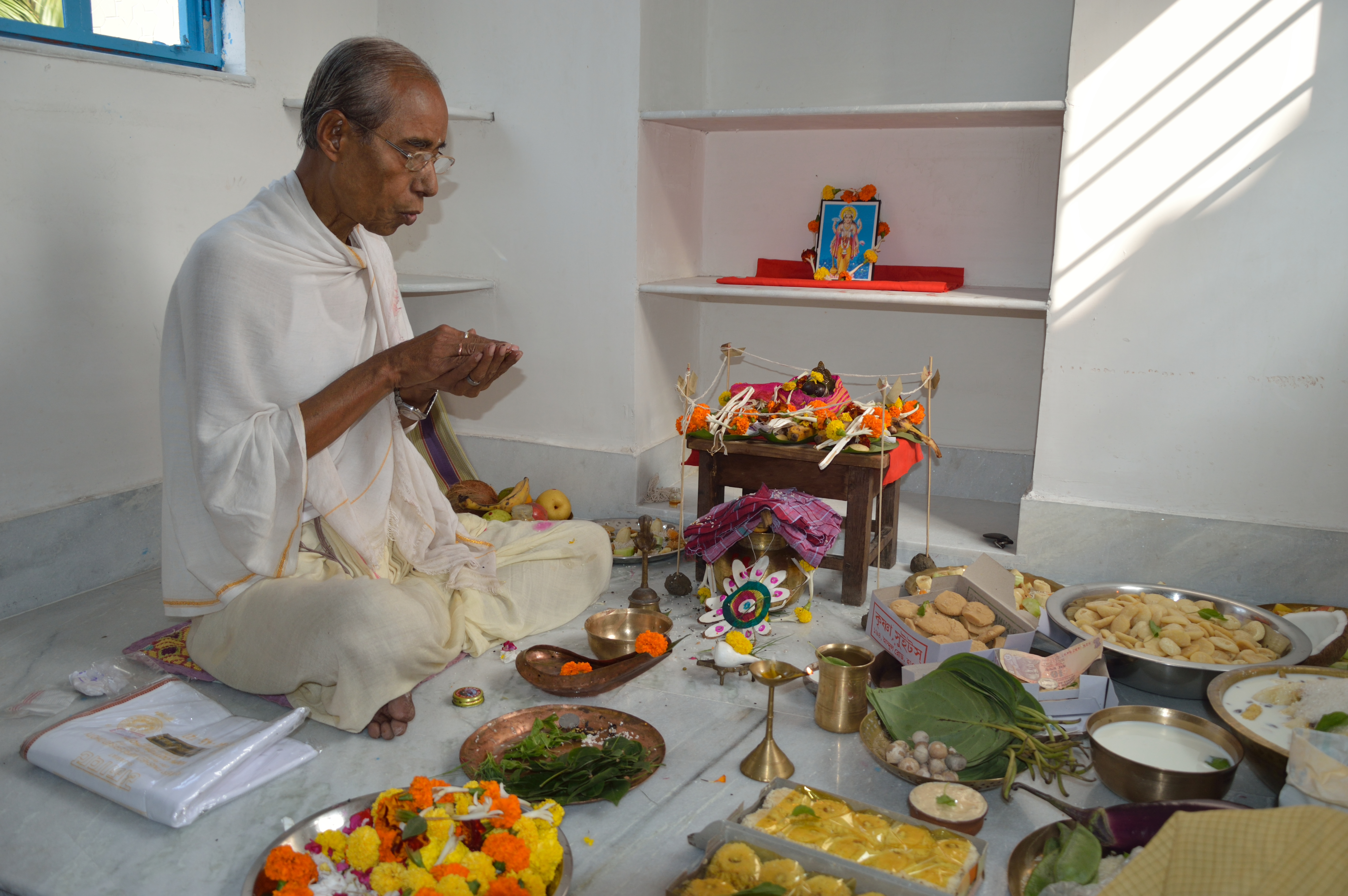 Photographed in Howrah.